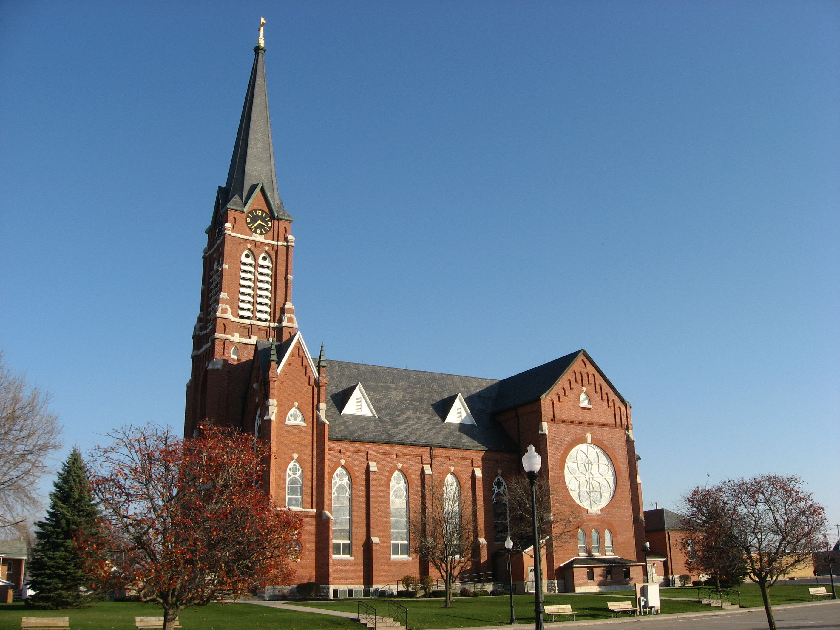 Western side of St. Henry Catholic Church, located along State Route 119 in St. Henry, Ohio, United States. Built in 1892, the church was listed on the National Register of Historic Places as a part of the Cross-Tipped Churches of Ohio Thematic Resources.